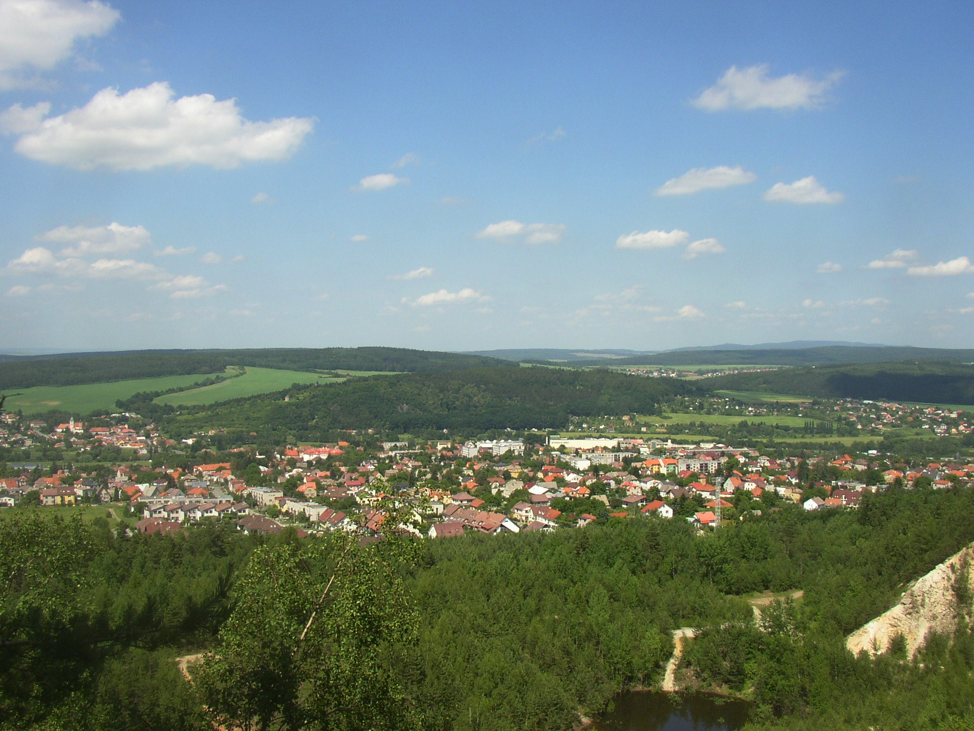 Starý Plzenec town, Plzeň-City District, Czech Republic. A view from the south.